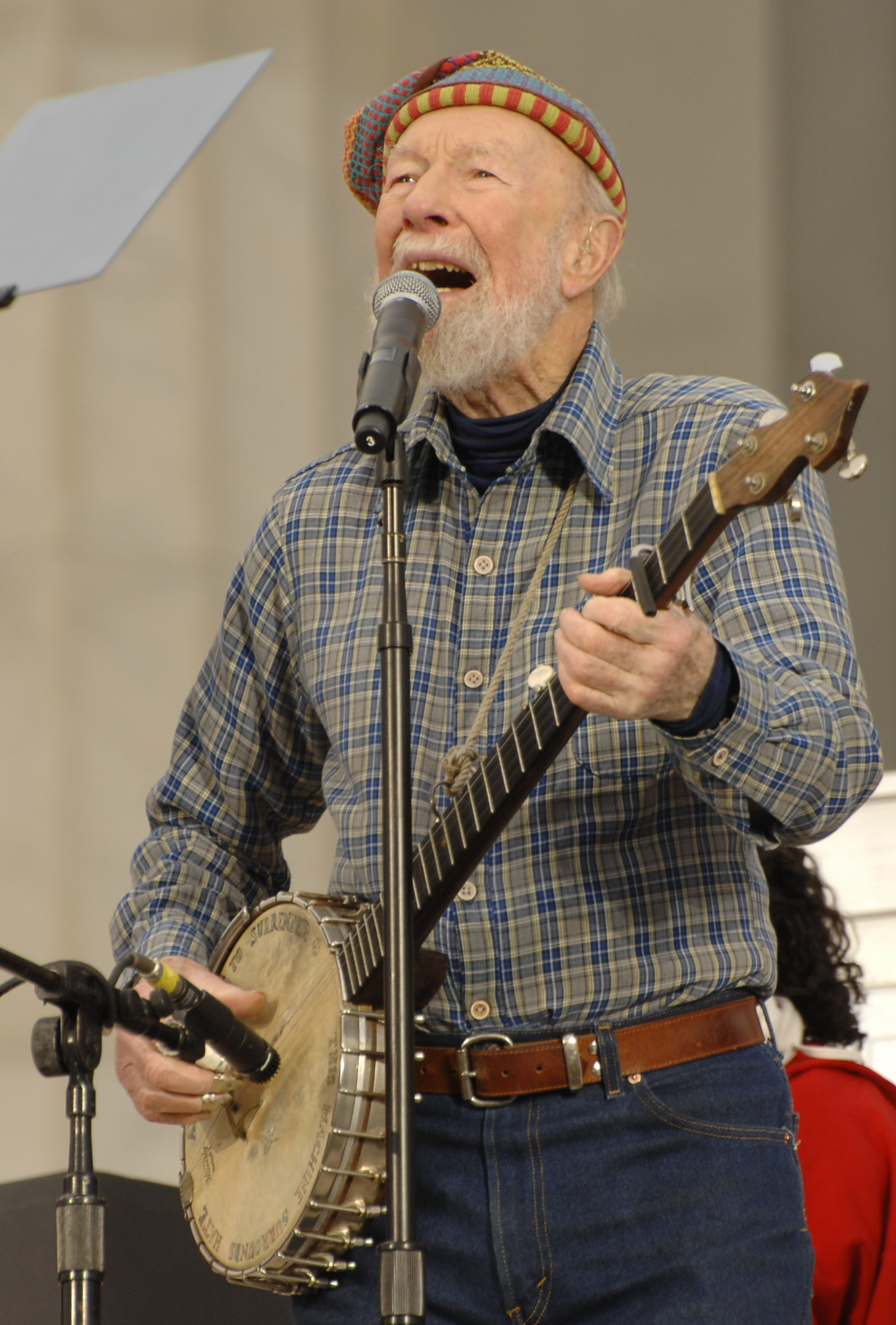 Pete Seeger at the Lincoln Memorial on the National Mall in Washington, D.C., Jan. 18, 2009, during the inaugural opening ceremonies.